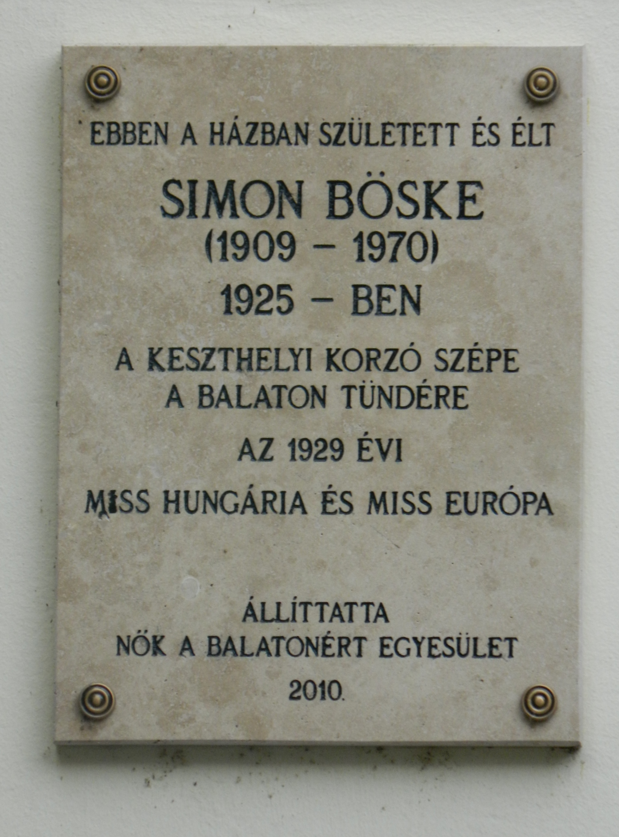 Simon Böske's Memorial tablet